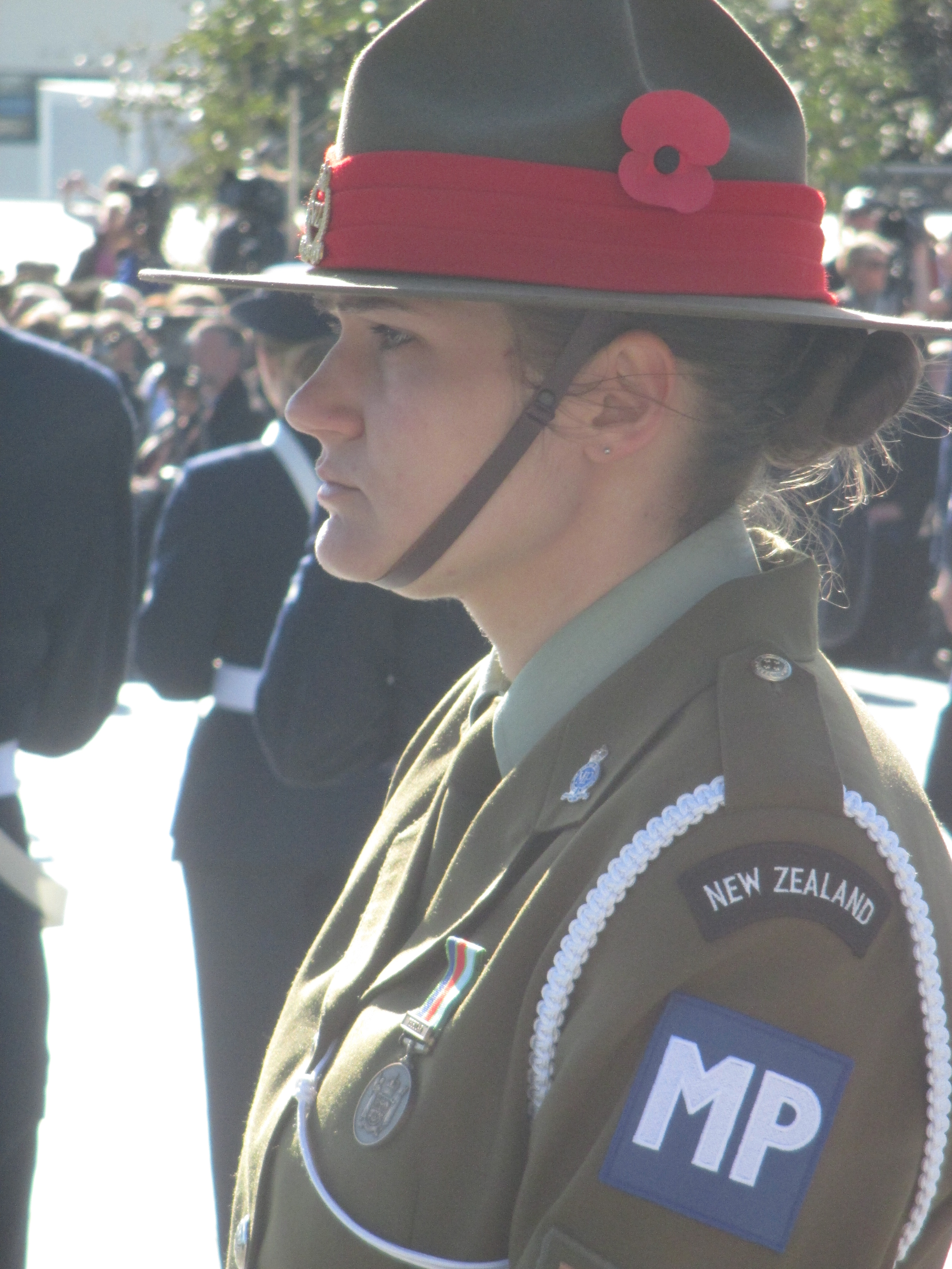 A member of the New Zealand military police. The "MP" patch identifies this woman as being a member of the New Zealand military police. This photo was taken at the Dedication of the Australian Memorial at Pukeahu National War Memorial Park, Wellington, New Zealand on 20 April 2015.